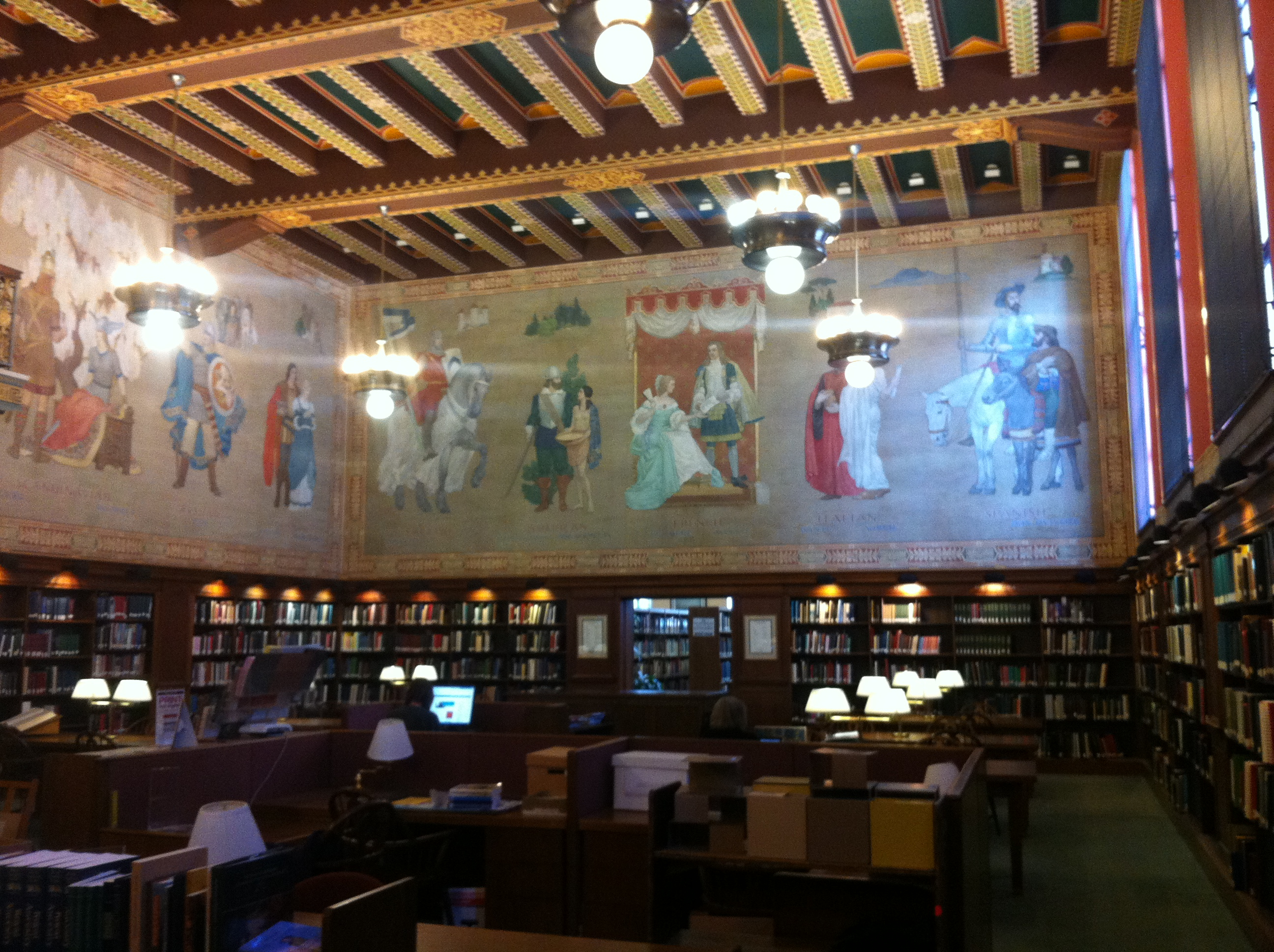 North side of the main research room in the Linn-Henley Research Library, Birmingham, Alabama.